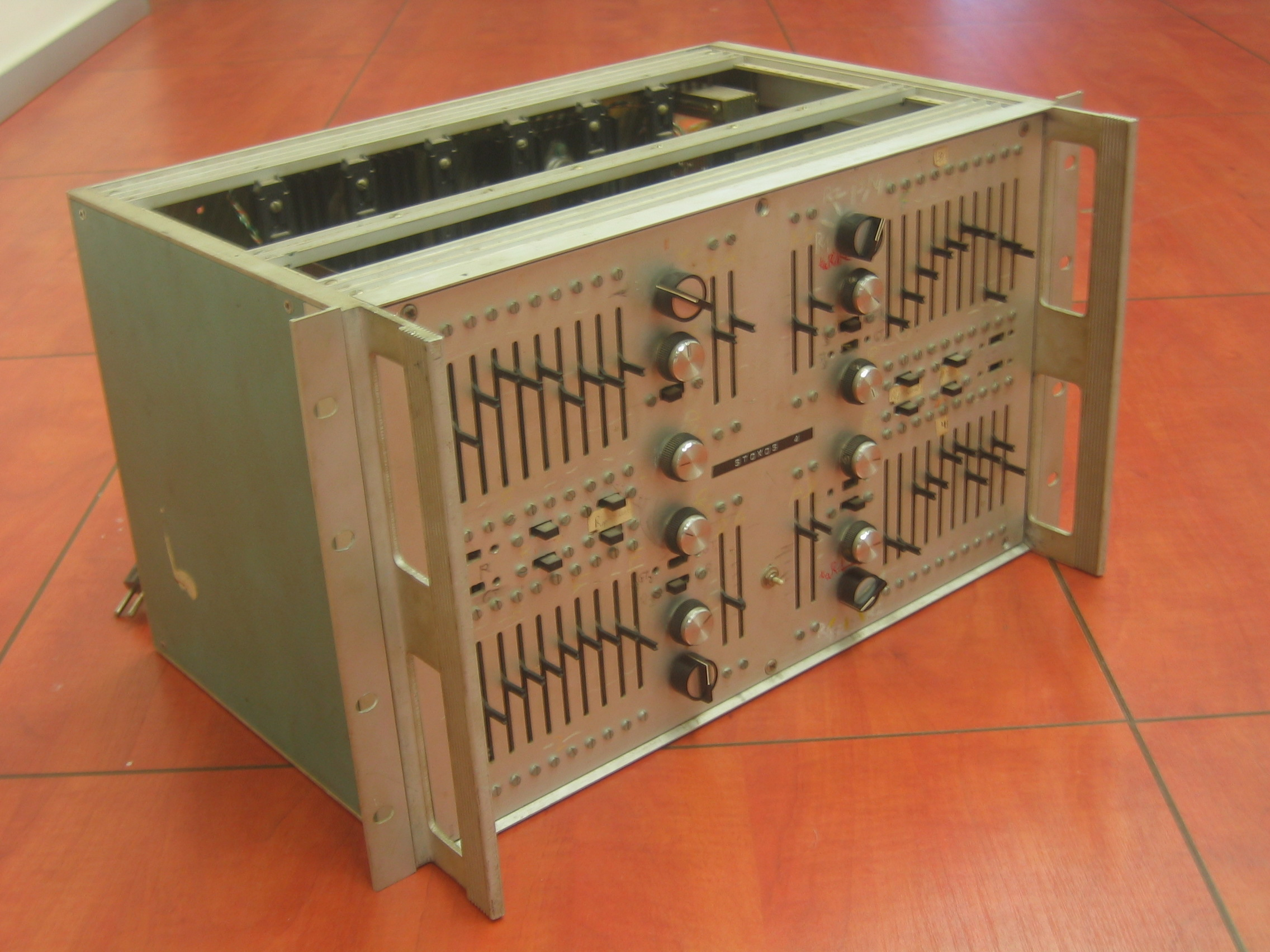 Stokos-4 is the synthesiser designed and hand made by Lluís Callejo in late 1970's for Phonos Studio.